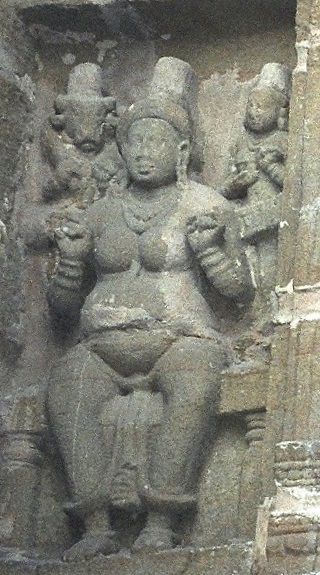 Jyestha devi, Kailas temple, kanchipuram